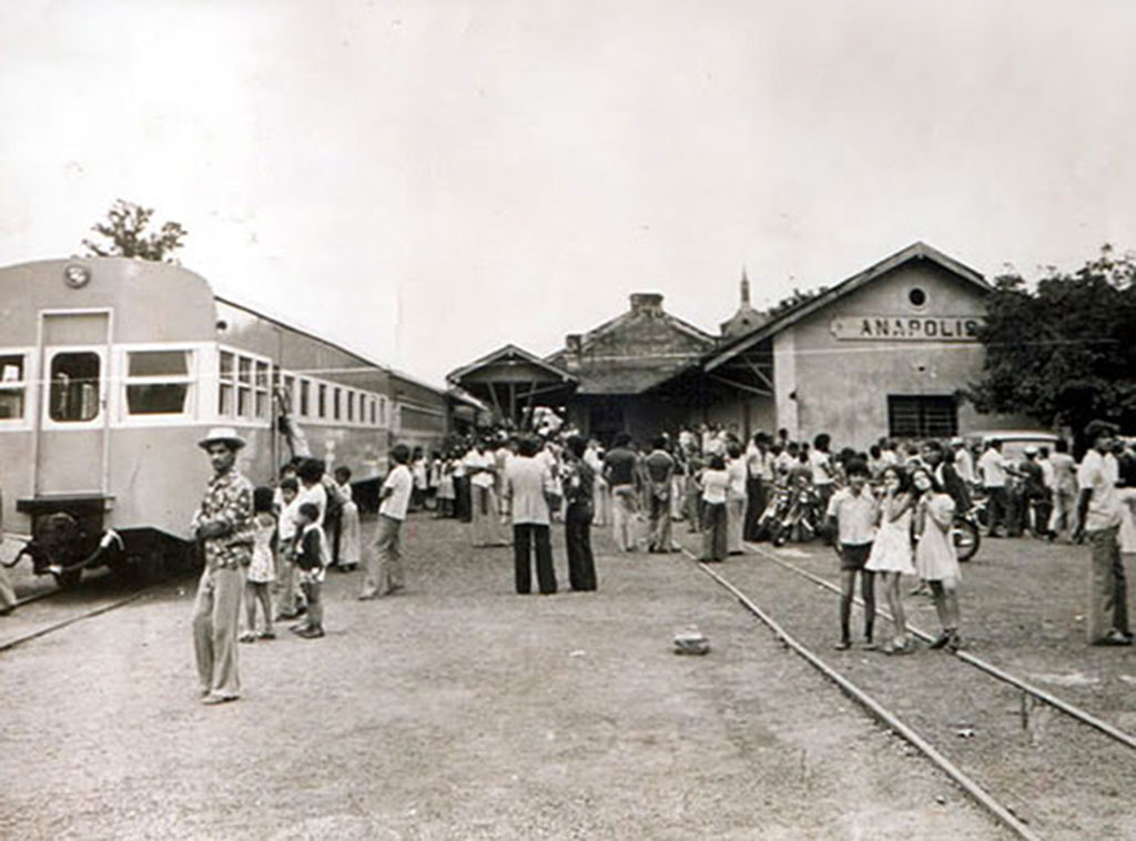 Inauguration of the Railroad in Anápolis, 1935.